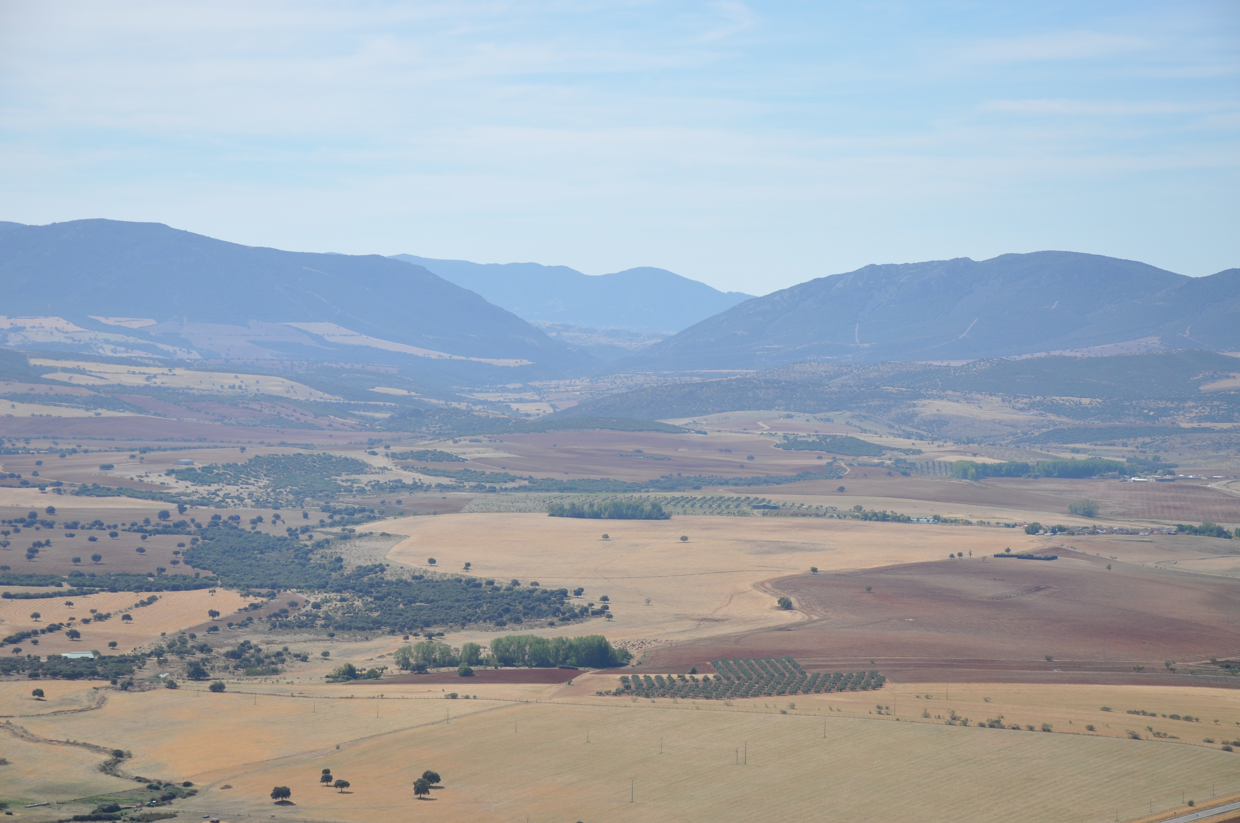 The Junta de los Ríos, the strategic passage of the Plateau to Andalusia through Sierra Morena, seen from the Calatrava la Nueva Castle, CR, Castilla-La Mancha, Spain